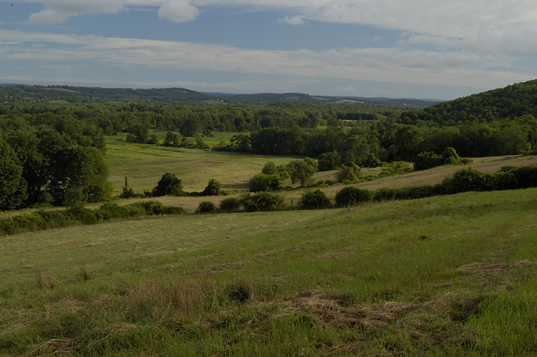 View of Wallkill River National Wildlife Refuge, Sussex County, New Jersey, USA. Looking north.